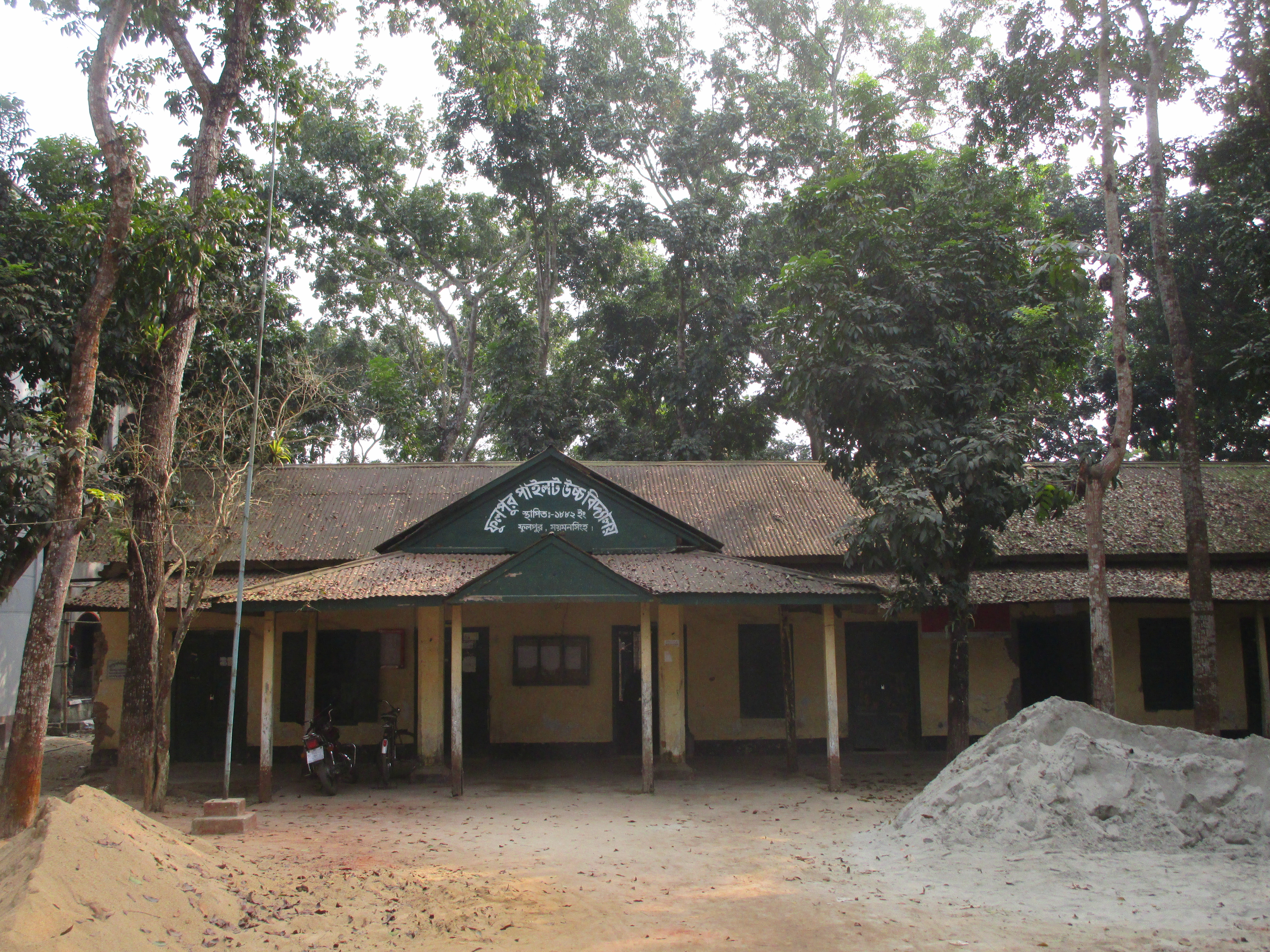 Phulpur pilot high school at Phulpur, Mymensingh